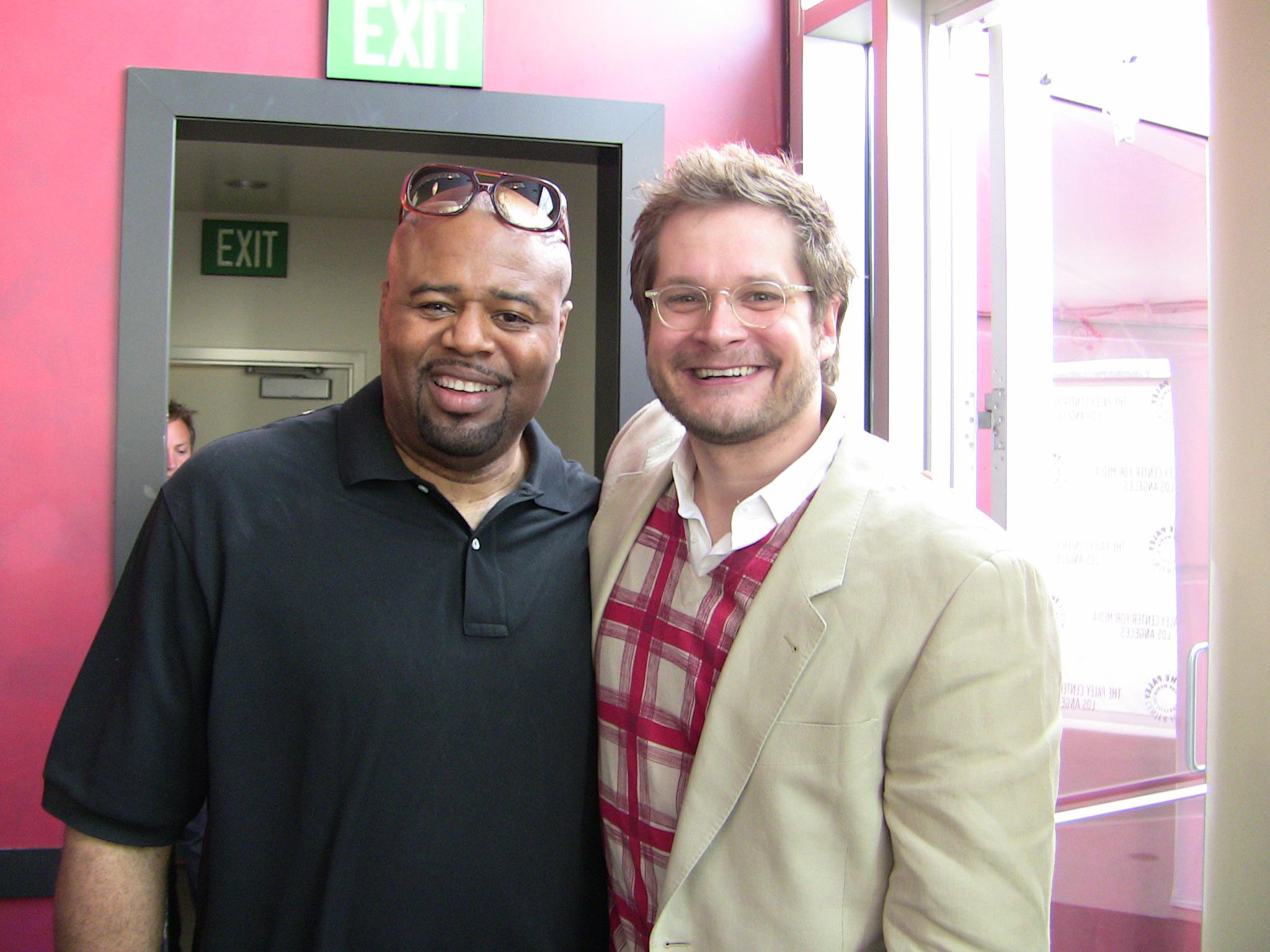 Actor Chi McBride and screenwriter Bryan Fuller - "Pushing Daisies" 25th Annual Paley Television Festival - ArcLight Cinemas, Los Angeles.